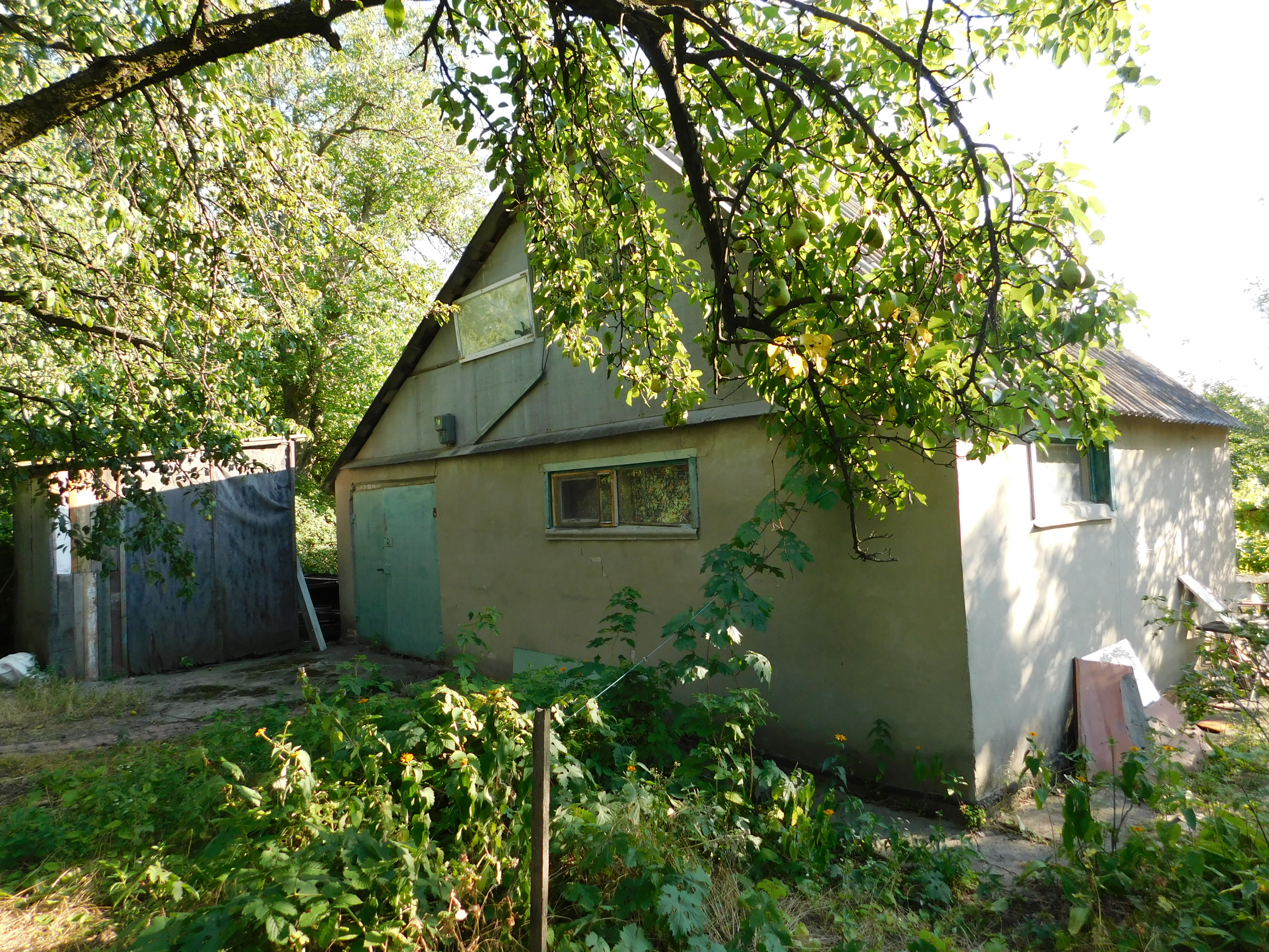 House; 18.07.19